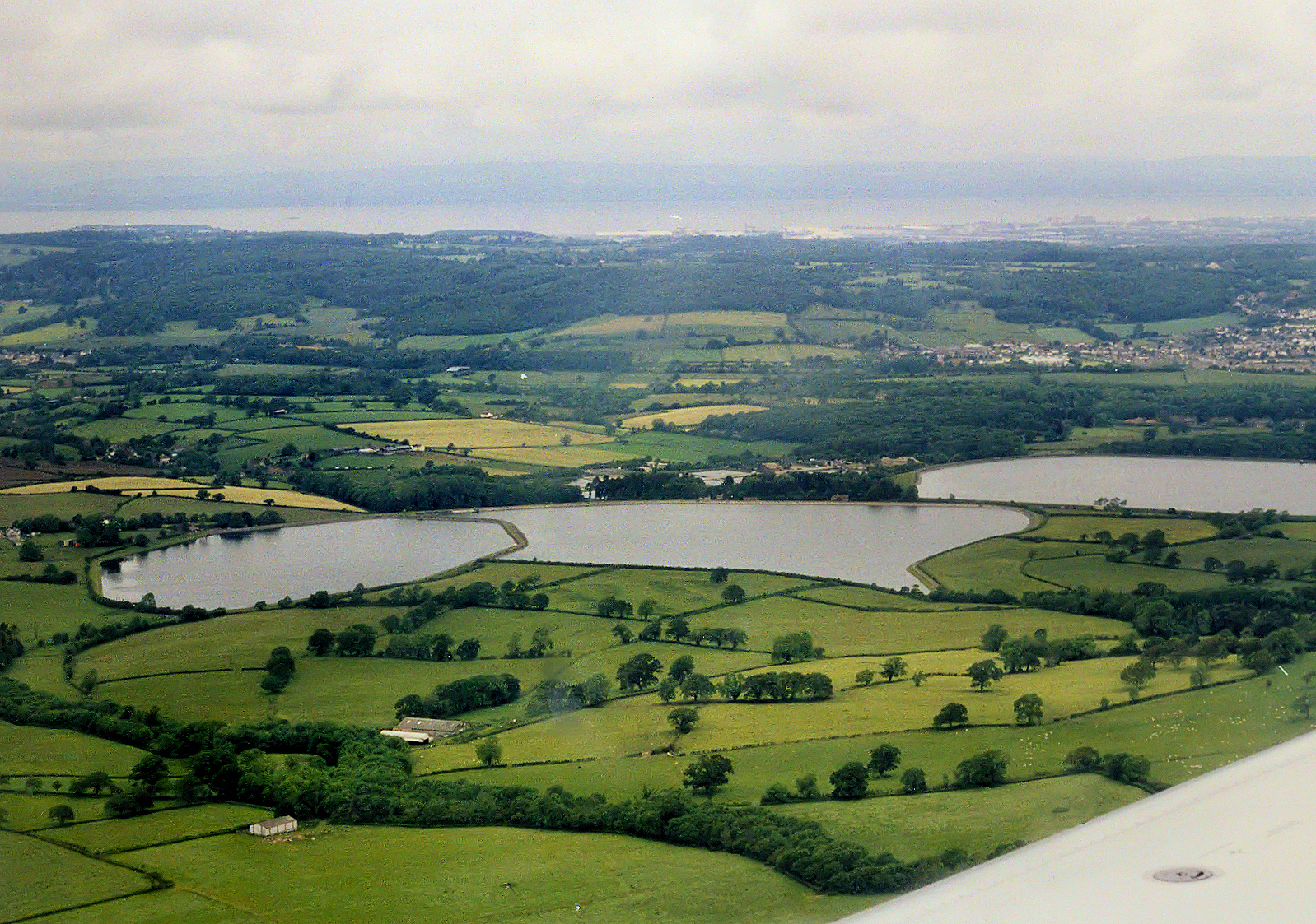 Barrow Tanks at Barrow Gurney, near Bristol, in south west England. Sorry about the poor quality. Notice the illusion that the left hand reservoir slopes down from right to left.